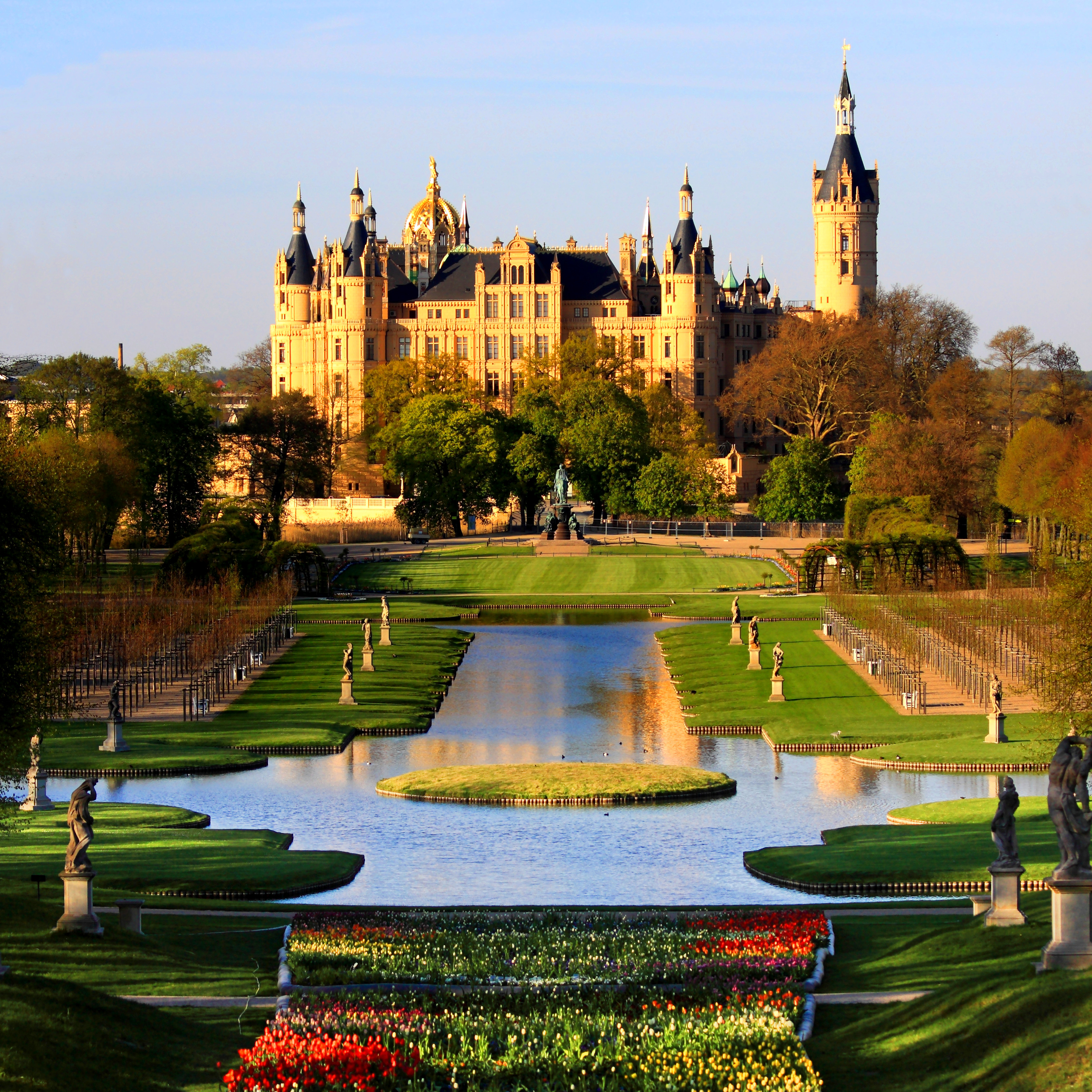 Schwerin Palace and its royal gardens, Mecklenburg, Germany. Photo taken during BUGA 2009 horticultural show.